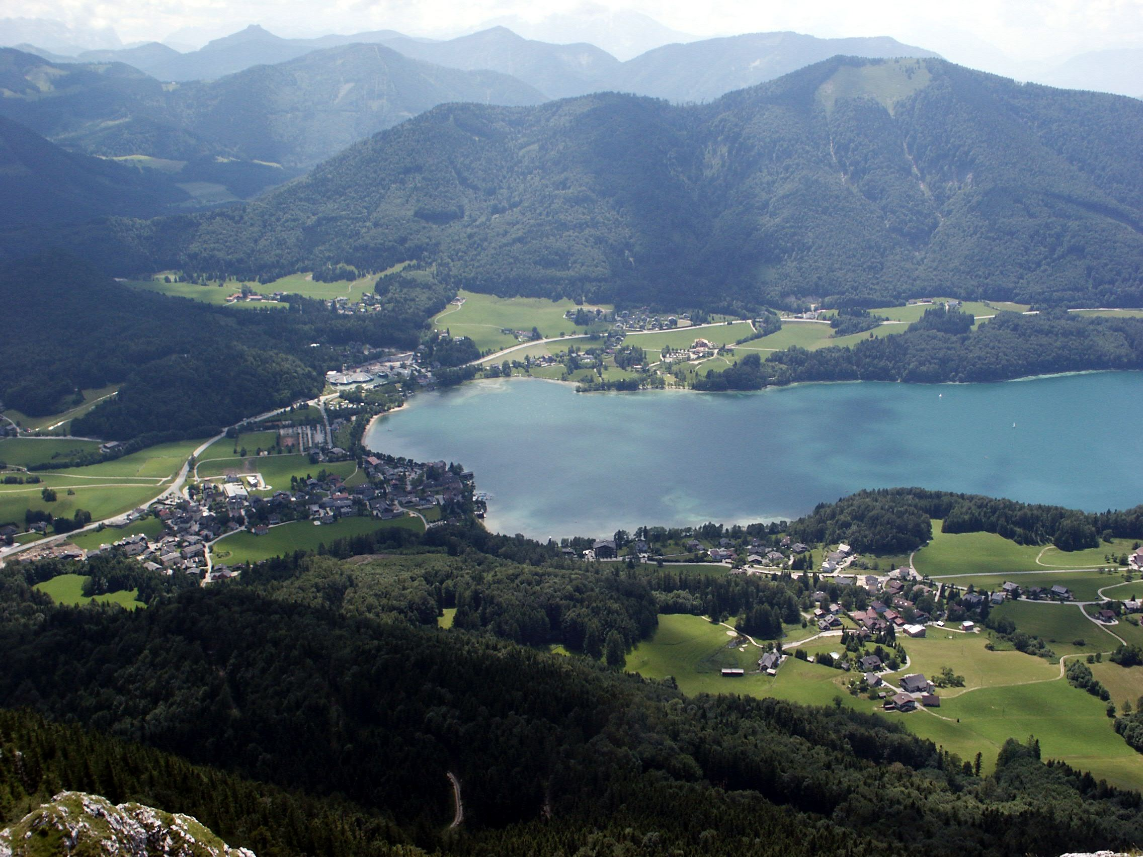 The village "Fuschl am See" in Salzburg/Austria and the lake Fuschlsee as seen from the mountain Schober (Frauenkopf). Besides the main road you can also see the new headquater of Red Bull which looks like two cones, the old HQ beside it is too small to recognize. The upper right mountain is the Fibling, 1307 meters Picture taken 2006-07-03 by myself D.Höss./Birka licence: GFDL fo shizzle